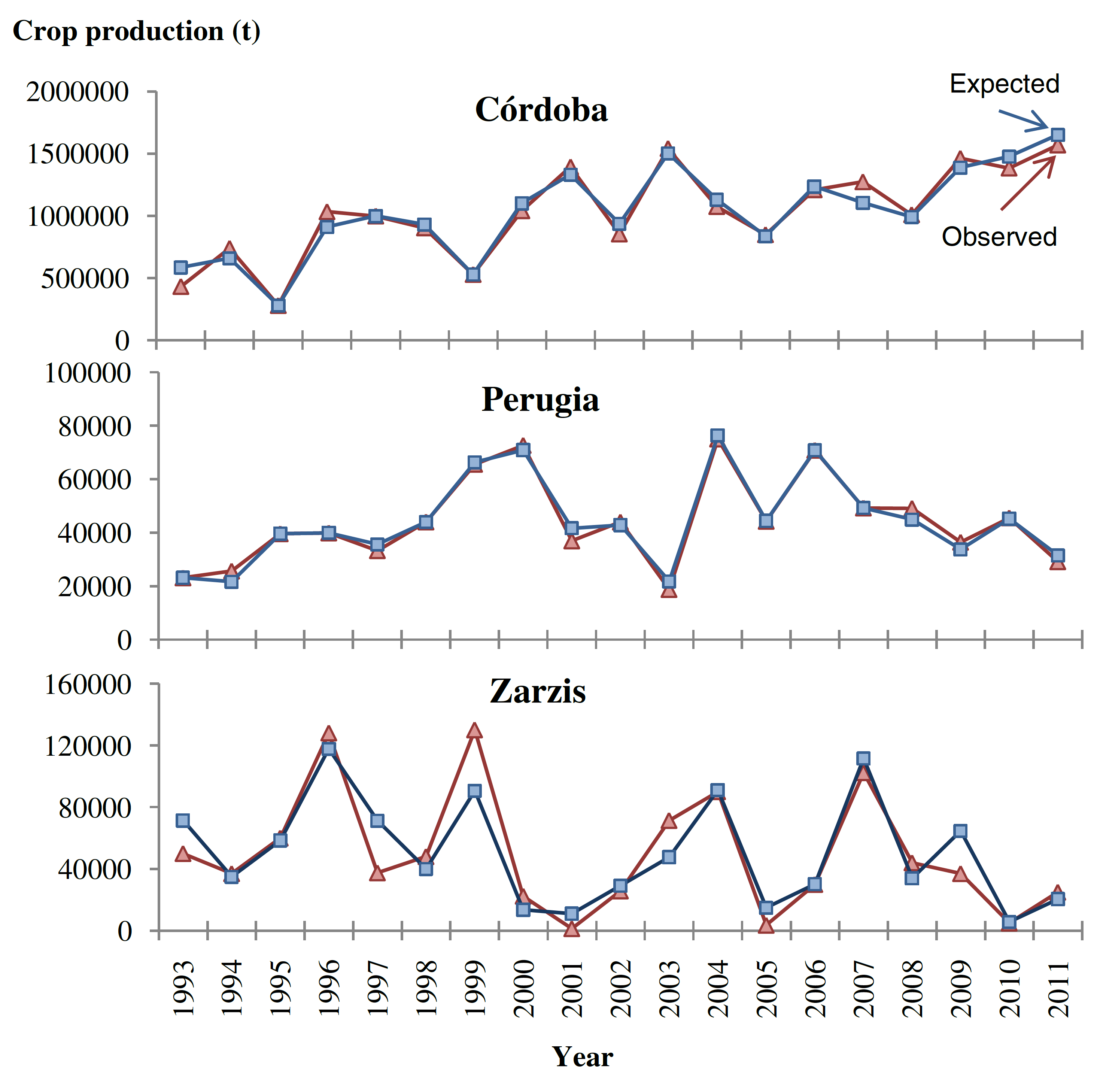 Forecasting olive crop production based on aerobiological method (Oteros et al., 2014).